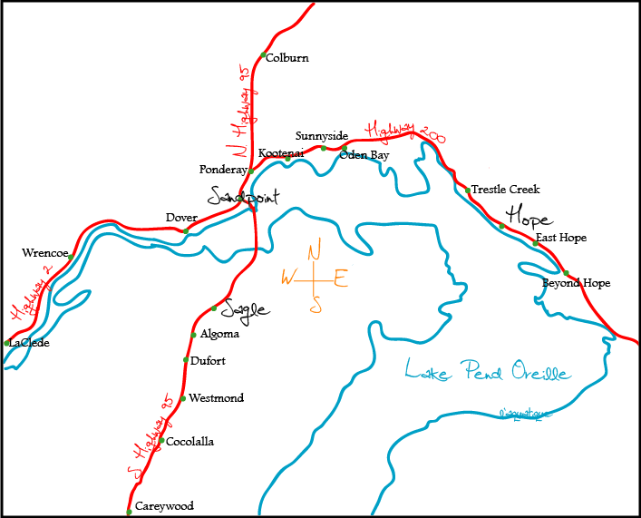 Image description: A rough sketch of the layout of the highways and cities surrounding Northern Lake Pend Oreille in Northern Idaho. Who took/created the image: This image was created by me, Wikivoyage User L'Aquatique. When the image was taken/created: 27 July 2007 For a vector format, check out Image:Map of the Sandpoint Idaho Region.svg (WT-shared) L'Aquatique 00:55, 28 July 2007 (EDT) map: Idaho Map of: Idaho